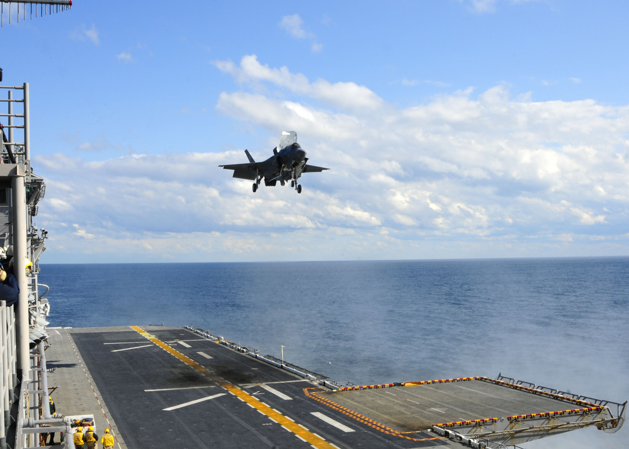 ATLANTIC OCEAN (Oct. 3, 2011) An F-35B Lightning II makes the first vertical landing on a flight deck at sea aboard the amphibious assault ship USS Wasp (LHD 1). The F-35B is the Marine Corps Joint Strike Force variant of the Joint Strike Fighter and is designed for short takeoff and vertical landing on Navy amphibious ships. (U.S. Navy photo by Mass Communication Seaman Natasha R. Chalk/Released)